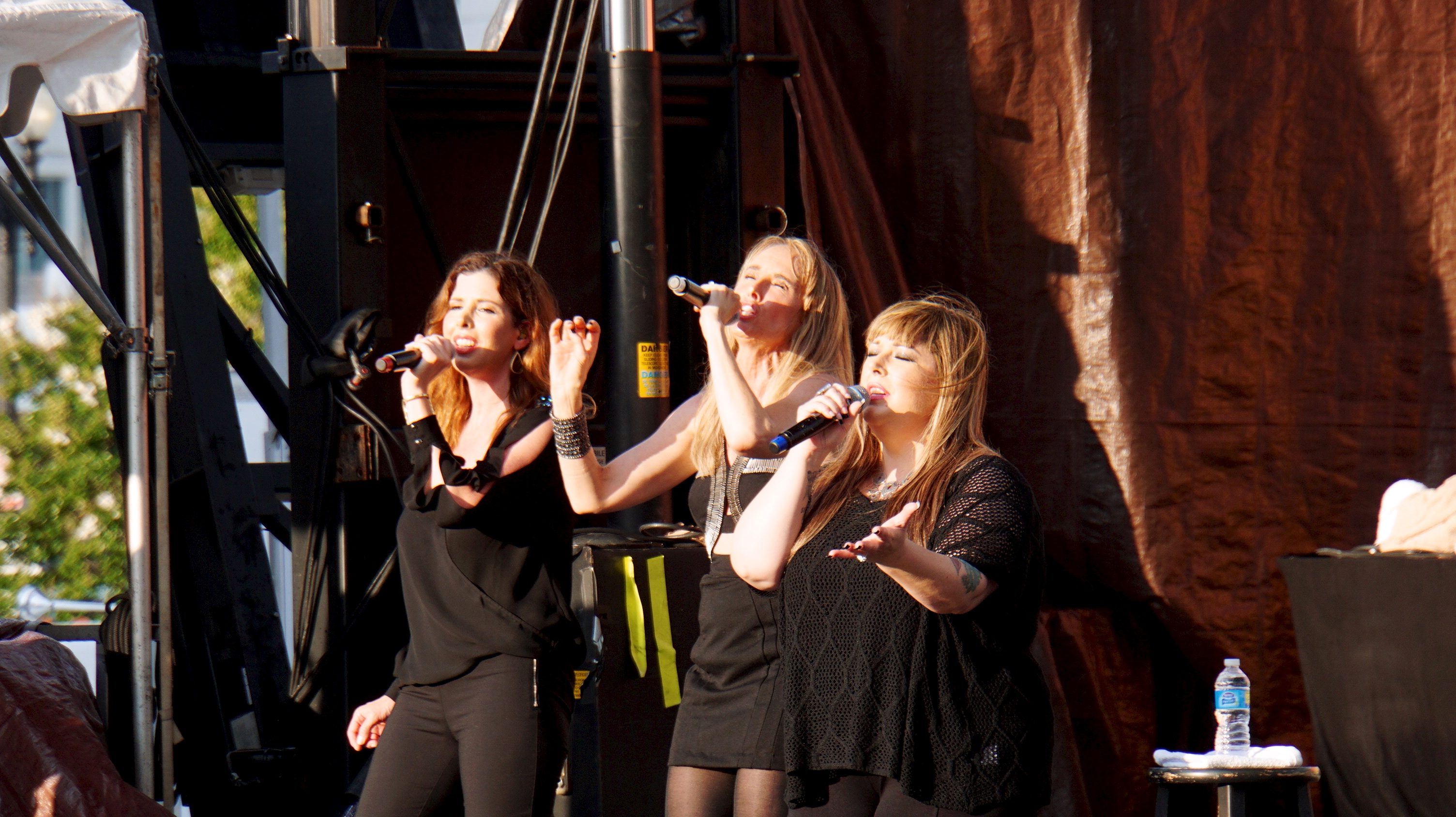 Featuring Carly Rae Jepsen and Wilson Phillips Kaiser Permanente is a Gold Sponsor of Capital Pride and a Platinum Sponsor of Capital TransPride in our nation's capital